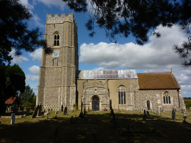 St Mary's Church, Kersey Seen from under a pine tree in the churchyard on the south side of the church.